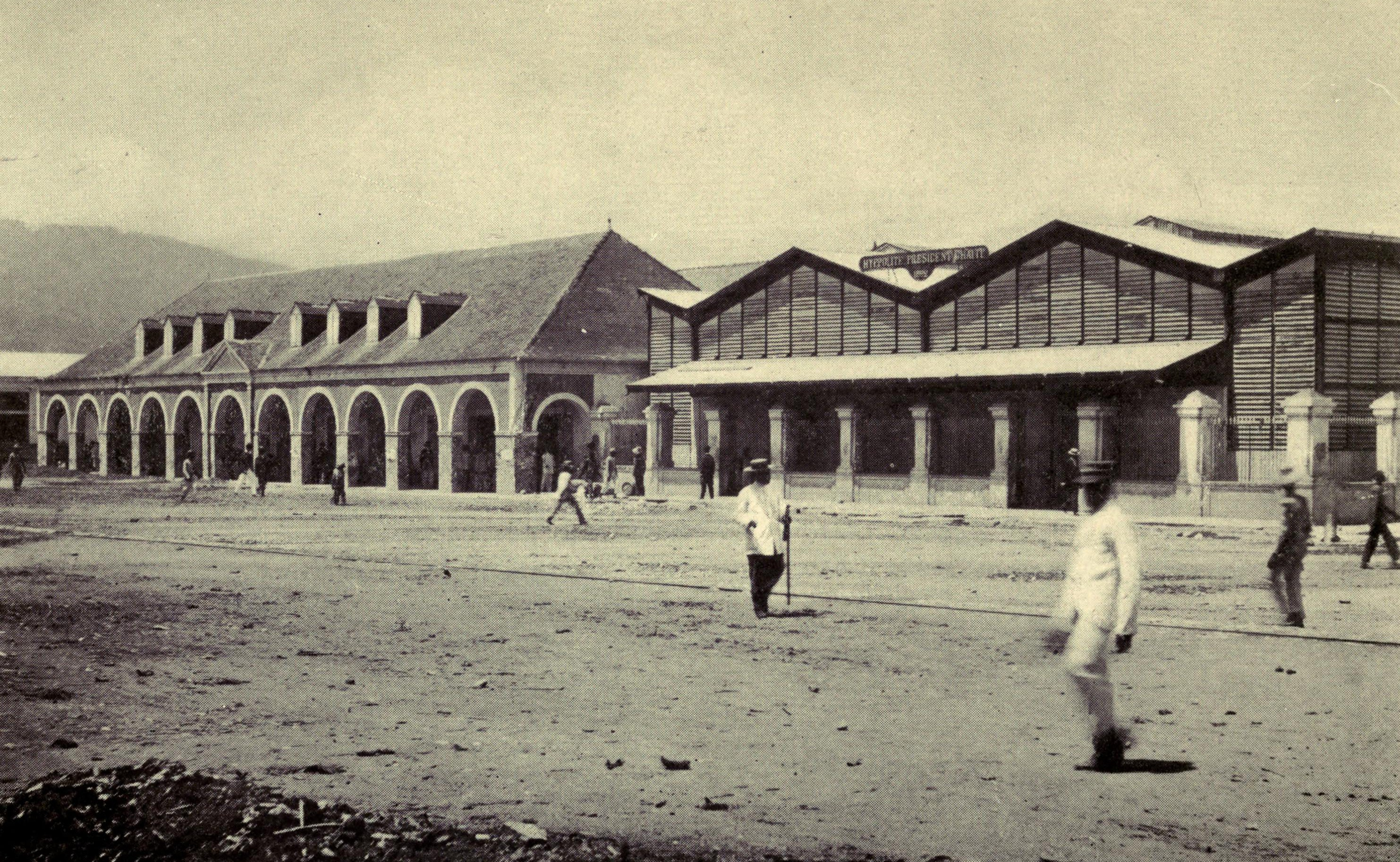 From a scanned version of the book Haiti- Her History and Her Detractors, by Jacques Nicolas Léger, published in 1906